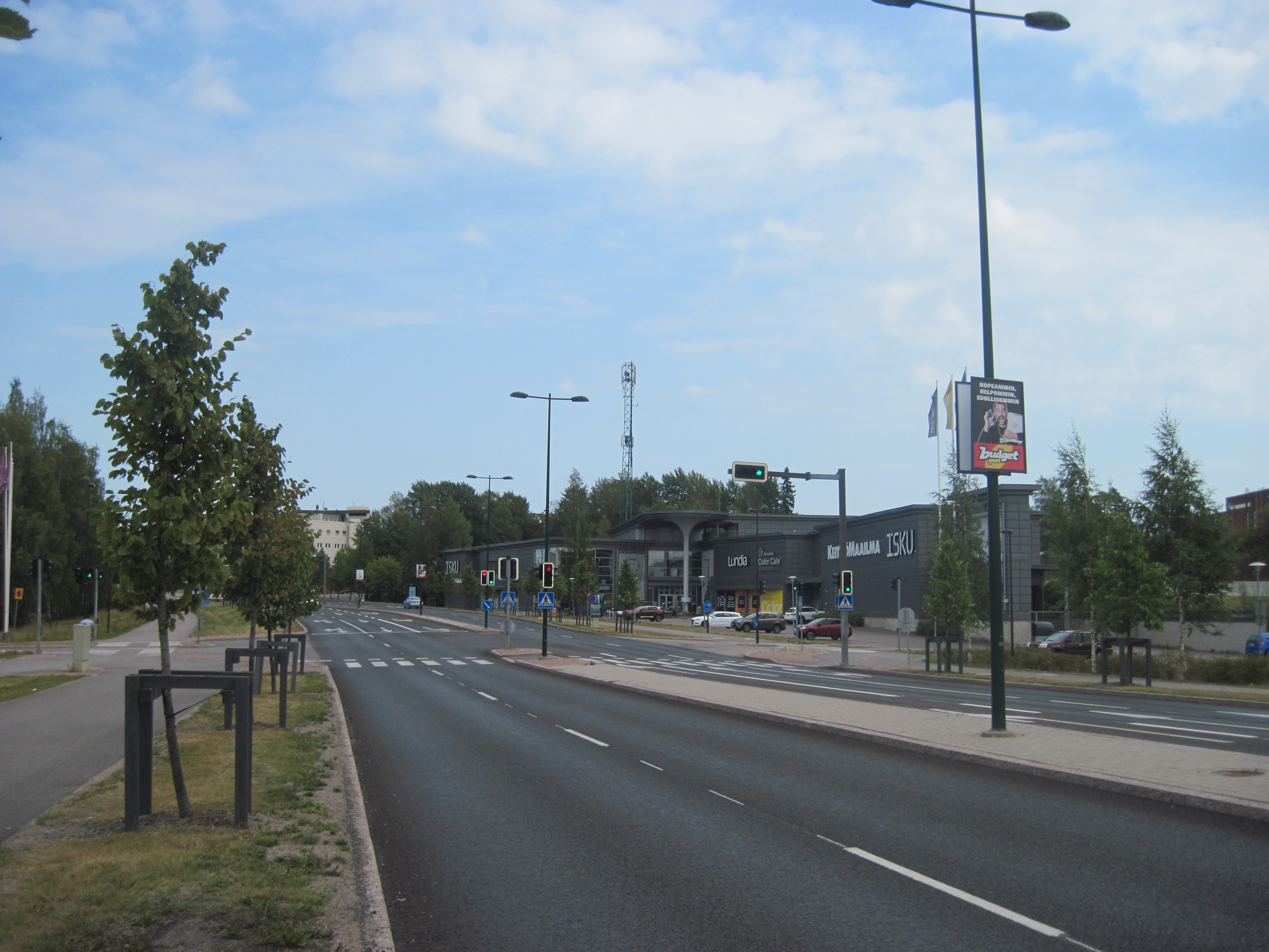 Kuitinmäentie at Friisilä, Espoo, Finland